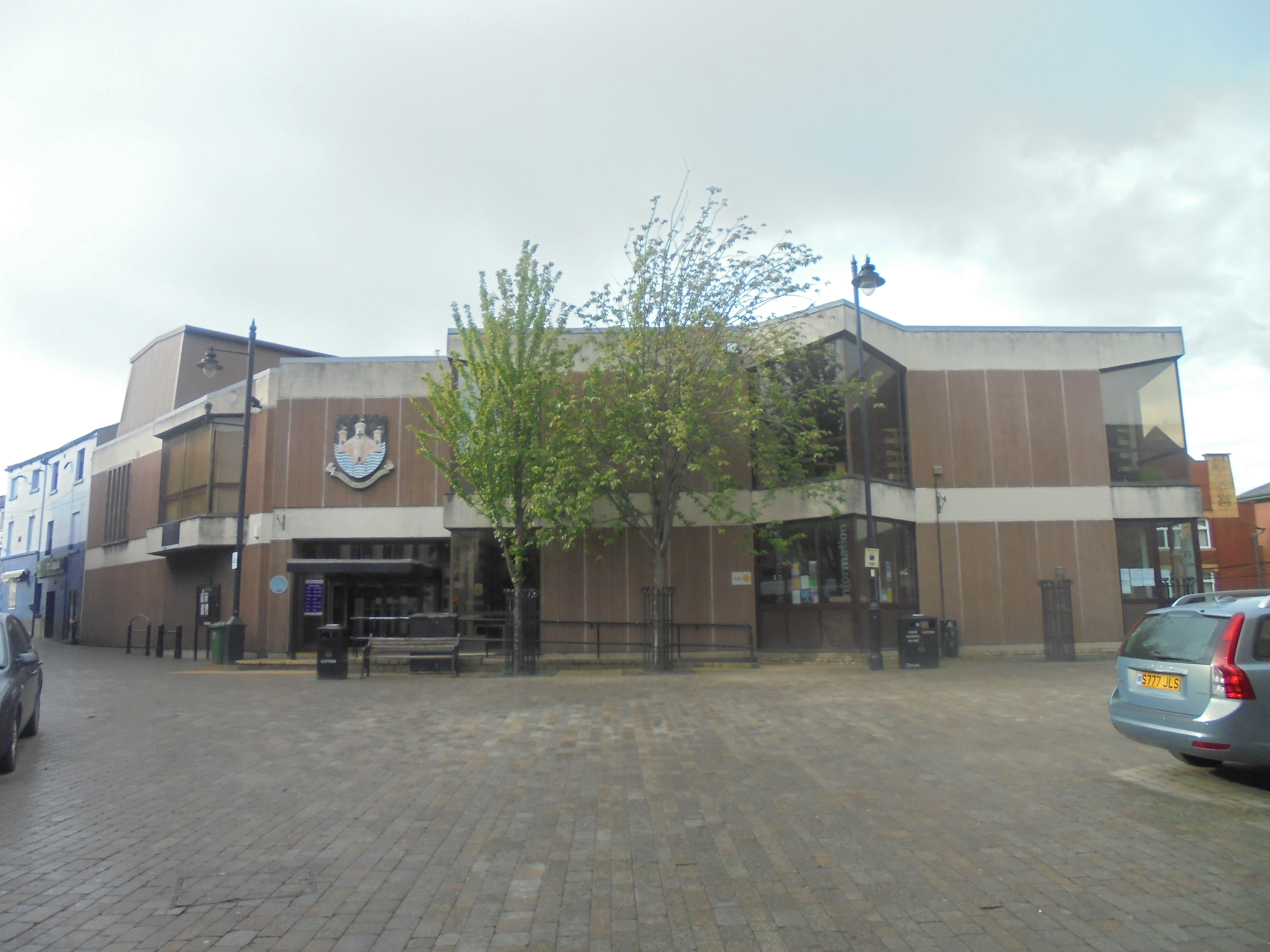 Pontefract Library seen from Salter Row, Pontefract, West Yorkshire. Taken on the afternoon of Thursday the 25th of April 2019.